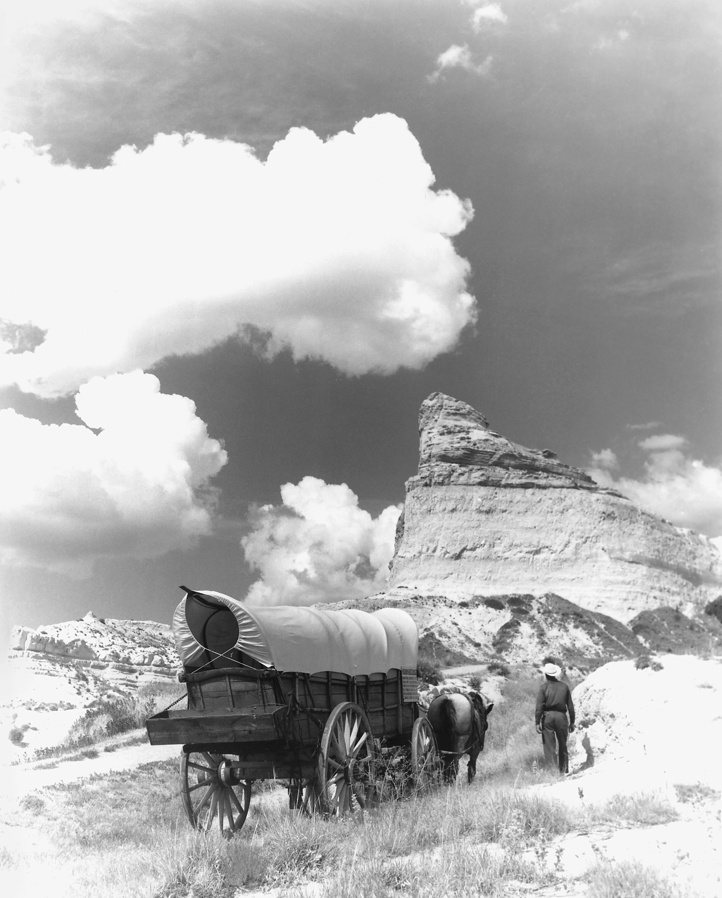 Scope and content: Rock formation in background.